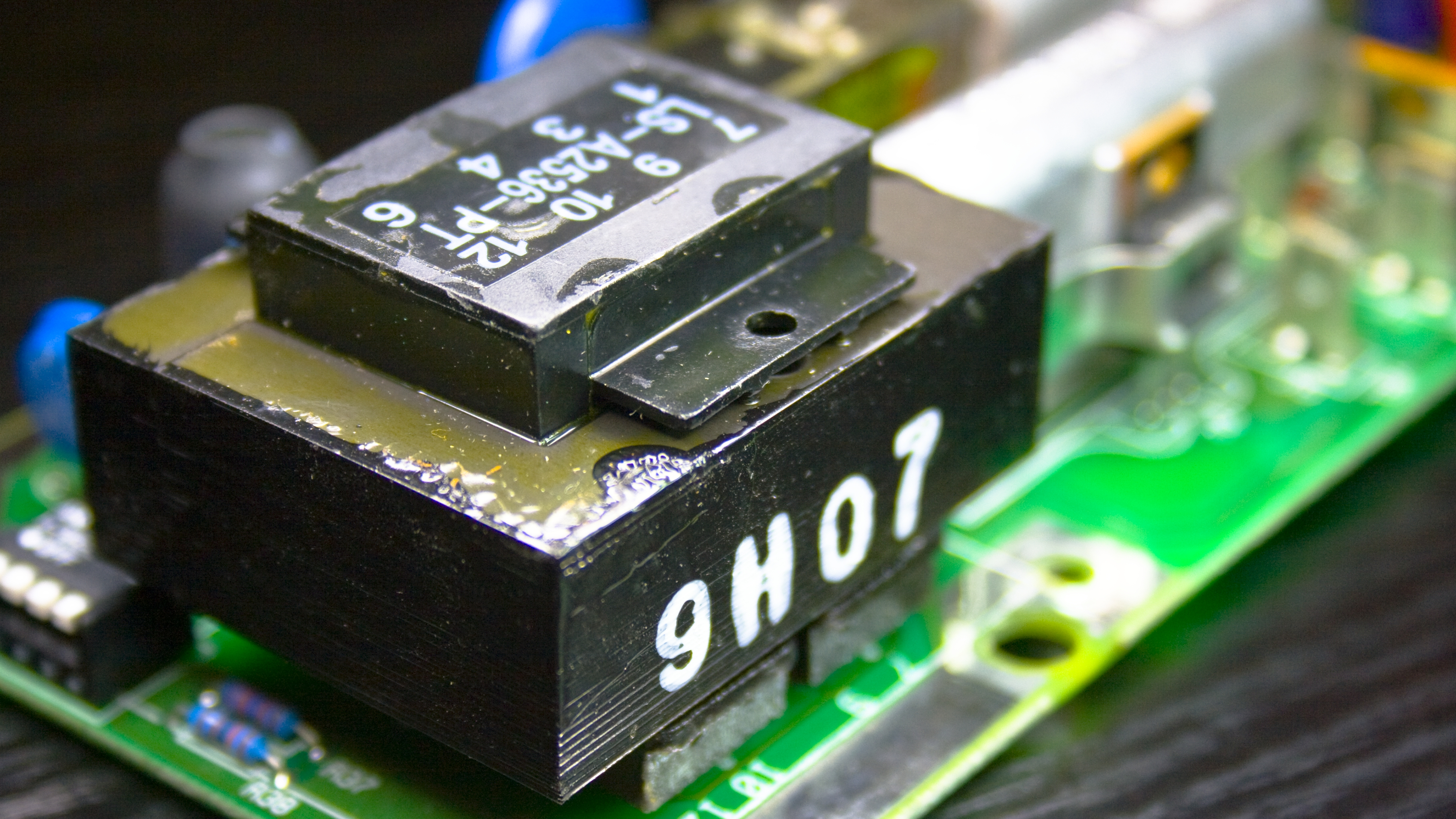 uninterruptible power supply